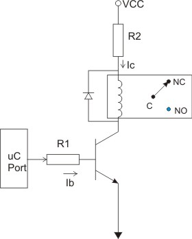 Interfacing Relay To a Microcontroller